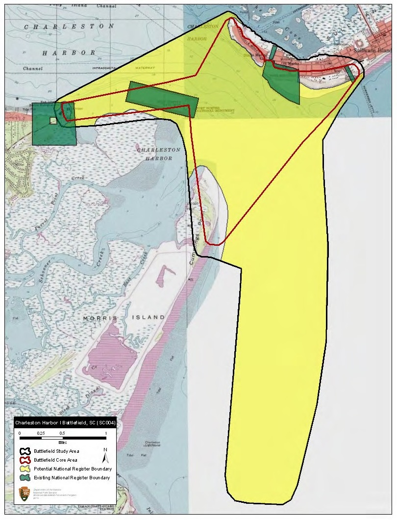 Map of battlefield core and study areas. The ABPP revised the 1993 Study Area to include the Confederate earthworks at Cummings Point, Battery Wagner, and Forts Moultrie, Beauregard, and Johnson. The ABPP also expanded the northern edge of the Study Area to incorporate the line of Confederate obstructions that spanned the inner harbor and extended the Study Area south to include the main shipping channel of Charleston Harbor, which US naval forces used as their route of approach from the south. ABPP adjustments to the Core Area better reflect the firing ranges of the Confederate batteries engaged during the battle and the US naval forces firing from the water. Because an attempted torpedo attack on the USS New Ironsides never materialized, the 1993 Core Area representing that location was removed.